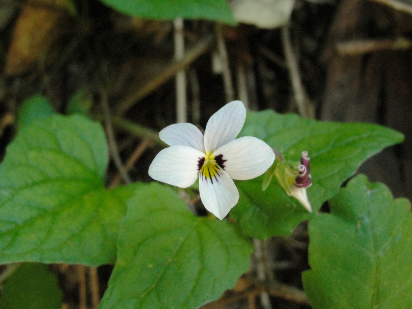 Viola ocellata in Long Ridge Open Space/Monte Bello Open Space Preserve in San Francisco Bay Area, California. Part of the Midpeninsula Regional Open Space District system.